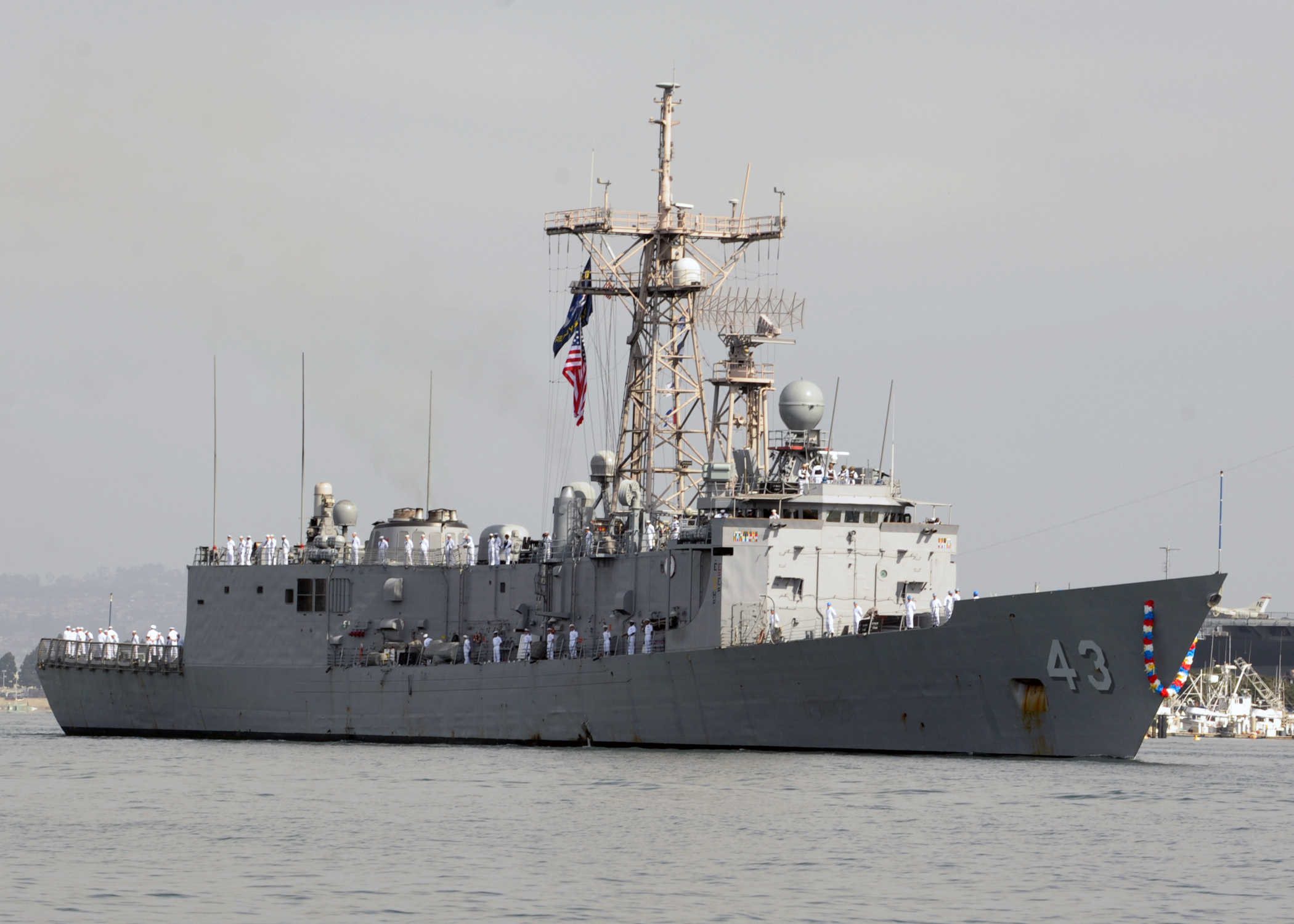 The Oliver Hazard Perry-class guided-missile frigate USS Thach (FFG 43) returns to San Diego after completing a six-month deployment in the U.S. 4th Fleet area of responsibility. Thach performed counter-illicit trafficking operations designed to improve maritime stability within the region and protect free use of the sea lanes by thwarting the activities of drug traffickers and criminal organizations. (U.S. Navy photo by Mass Communication Specialist 2nd Class Rosalie Garcia/Released) Unit: Navy Media Content Services DVIDS Tags: San Diego; return from deployment; arrival; U.S. Navy; ffg; frigate; Oliver Hazard perry class; guided missile frigate; USS Thach (FFG 43); FFG 43; Thach